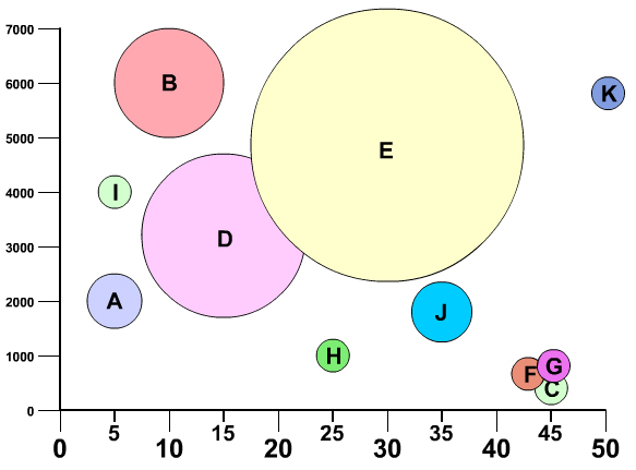 A simple bubble chart.